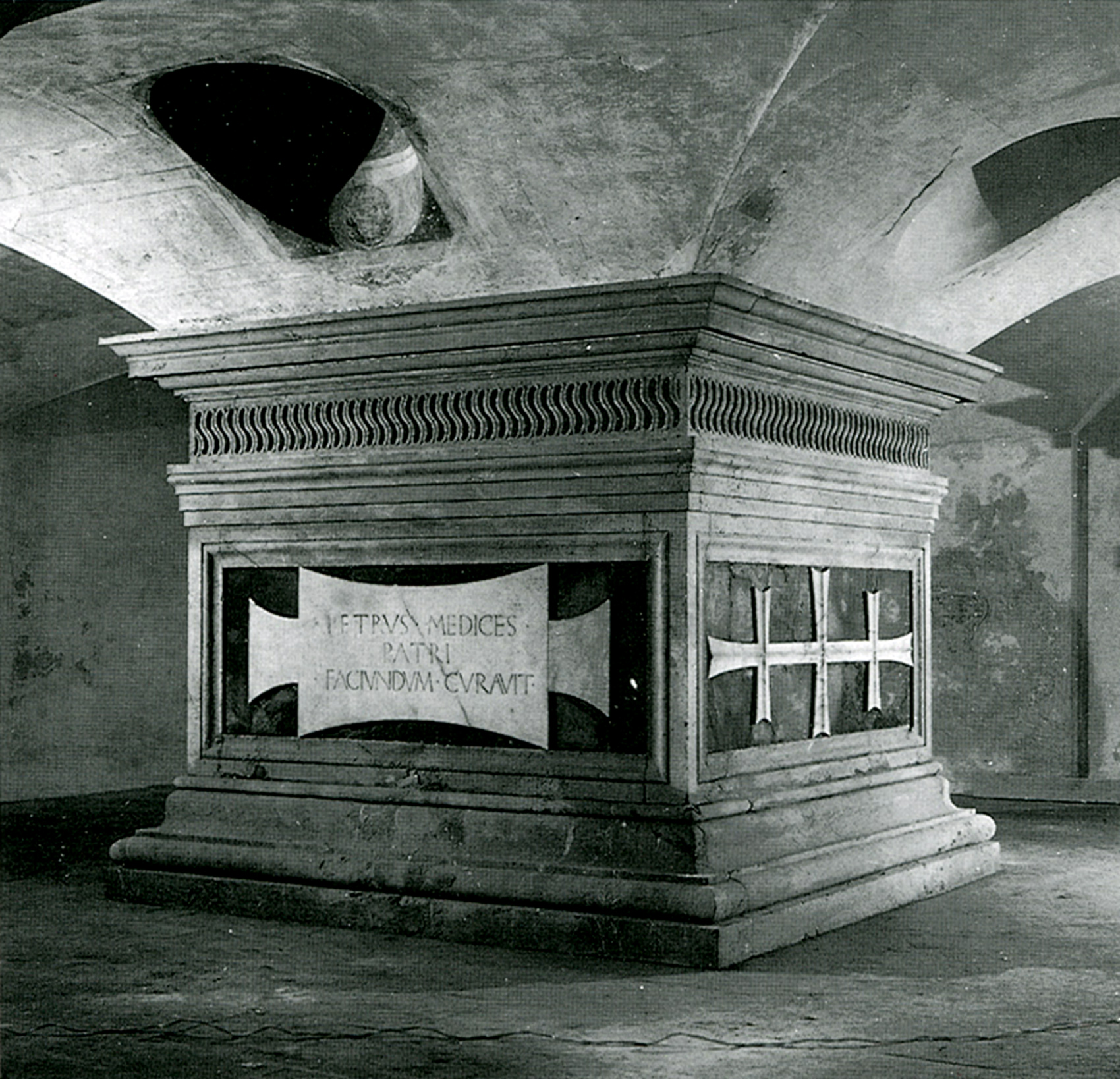 Interior of the Basilica of San Lorenzo (Florence) - Crypt